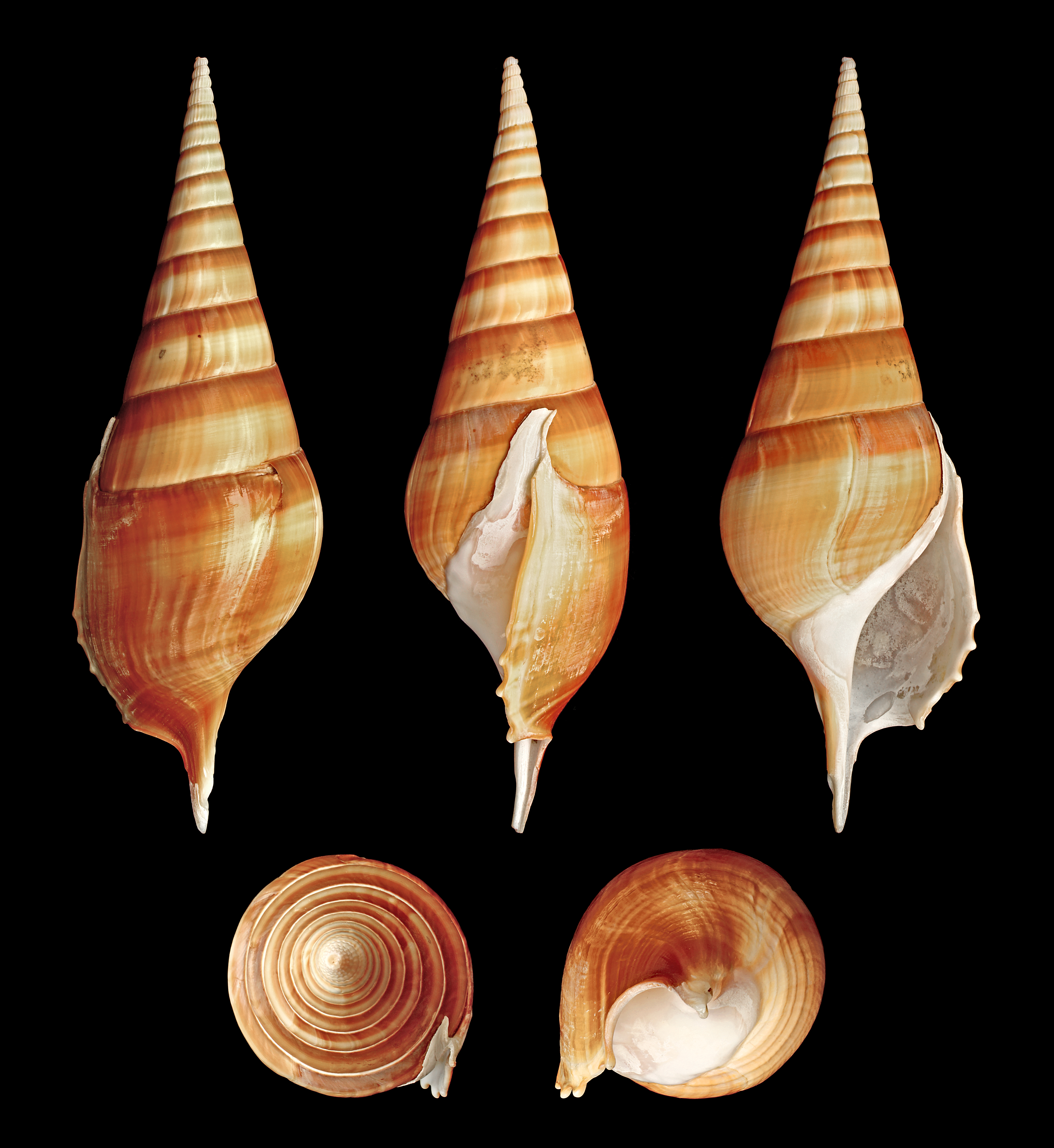 Indian Tibia; Length 14 cm; Originating from the Northern Indian Ocean; Shell of own collection, therefore not geocoded. Dorsal, lateral (right side), ventral, back, and front view.